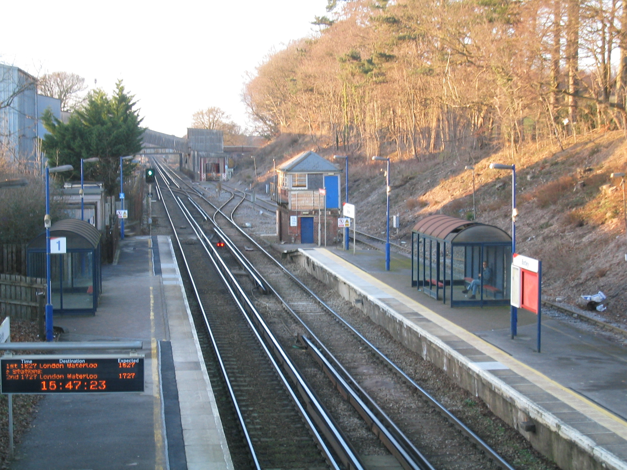 Botley railway station, Botley, Hampshire, UK. Photo taken by me 2006-01-21.